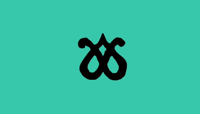 Flag of the Karakoyunlu State according to İ.H. Uzunçarşılı: "1937: Anadolu Beylikleri ve Akkoyunlu, Karakoyunlu Devletleri" Ankara:Türk Tarih Kurumu, 1988. The symbol is the knot of felicity, used by Qara Qoyunlu as a symbol on their coins.